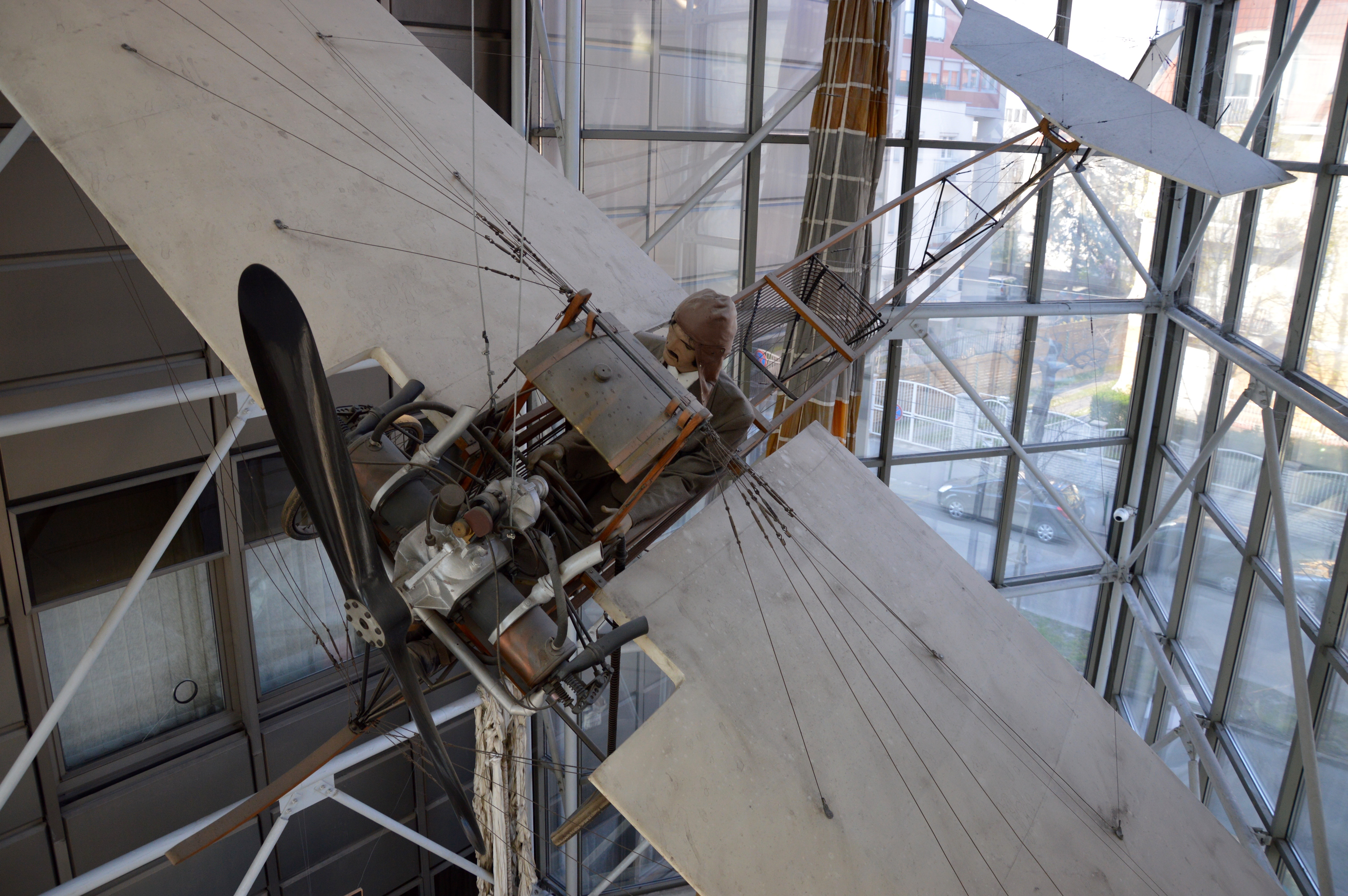 Mockup of Zsélyi II aircraft on display